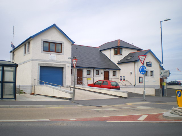 Borth lifeboat station To be honest, I wasn't sure which square to put this building in, as the grid line appears to cut it in half. For simplicity, I settled on the southern square.